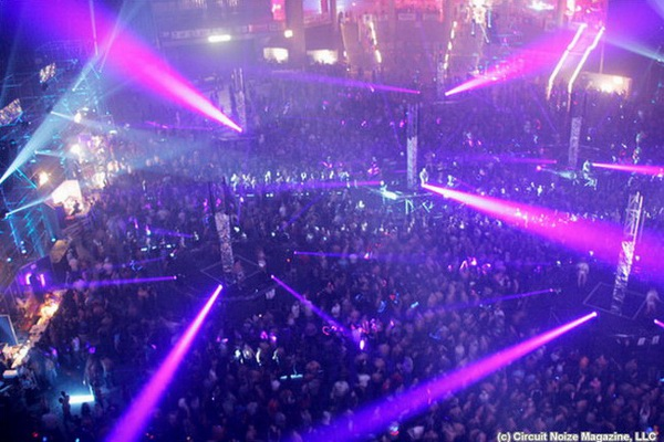 Black and Flue Festival dance festival